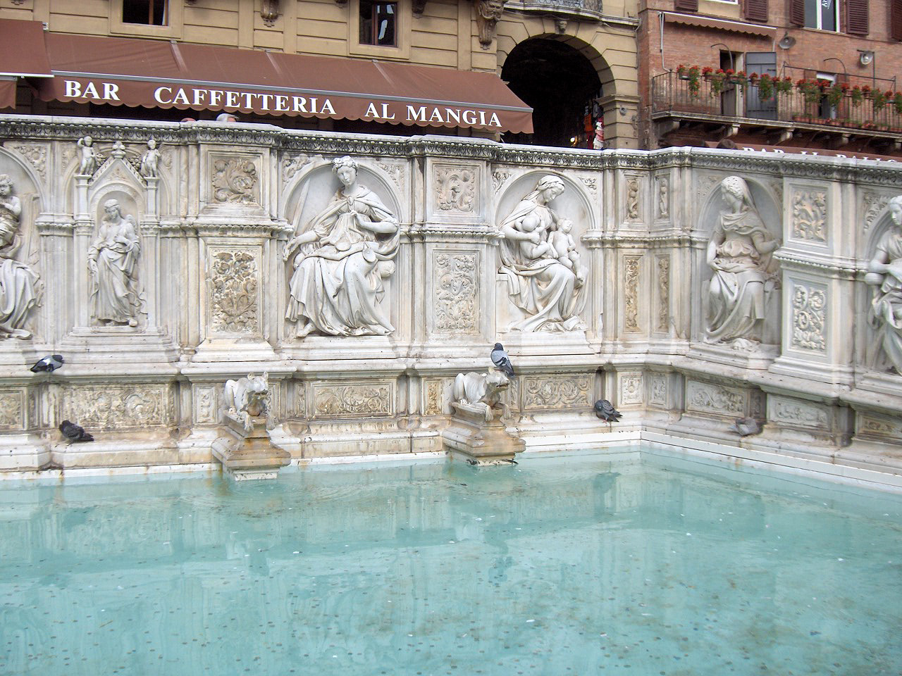 Right side of the Fonte Gaia, Siena, Italy Originally sculpted by Jacopo della Quercia. This is a copy by Tito Sarrocchi (1824–1900).